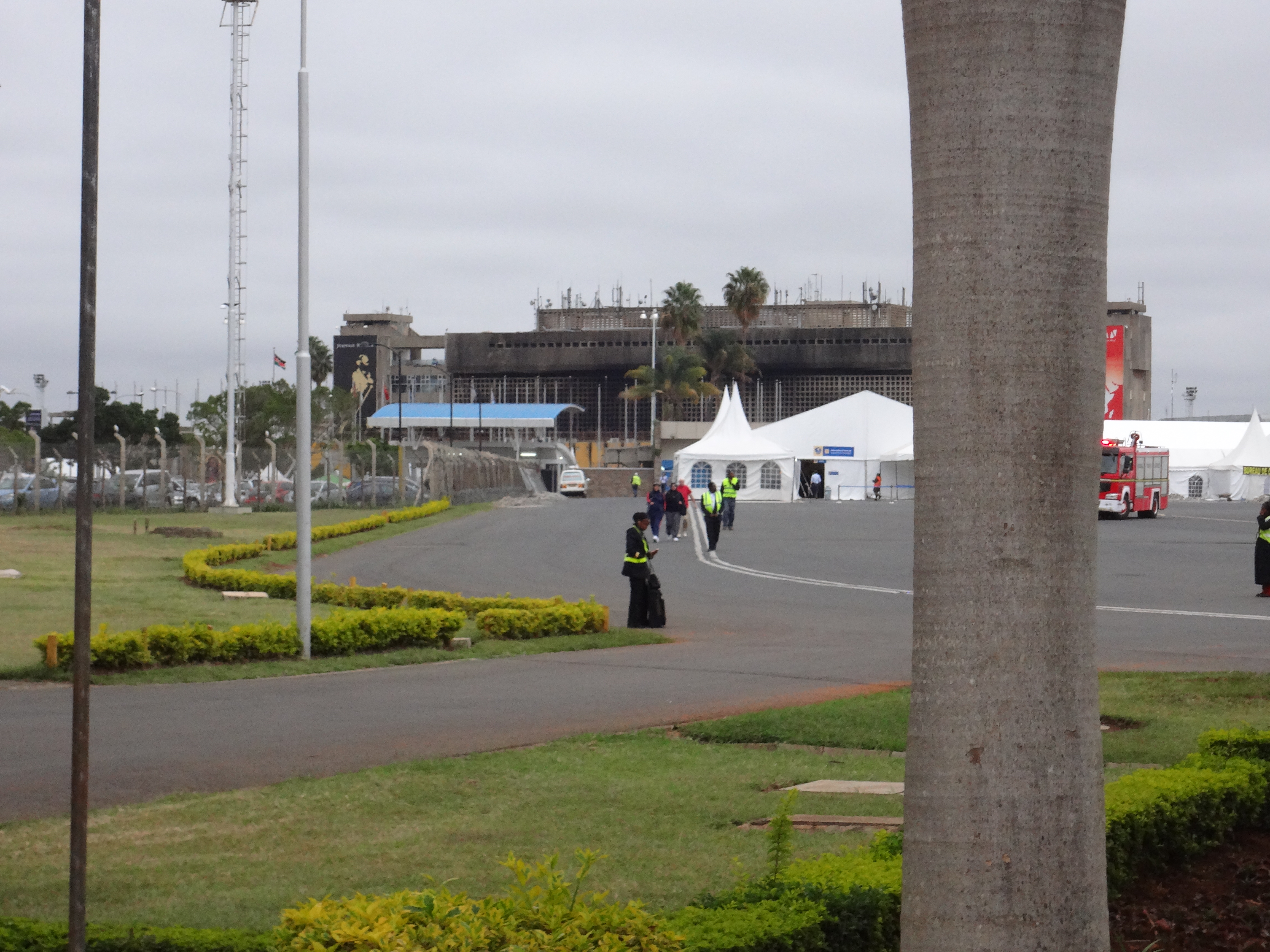 Post-fire damage to the exterior of the main terminal building at Jomo Kenyatta International Airport in Nairobi, Kenya. Following the fire, temporary tents were established on the tarmac to handle international arrivals, as can be seen in the foreground. Photo taken approximately 2 weeks after the fire.